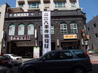 Tianma Tea House is the venue of 228 incident in Taiwan.